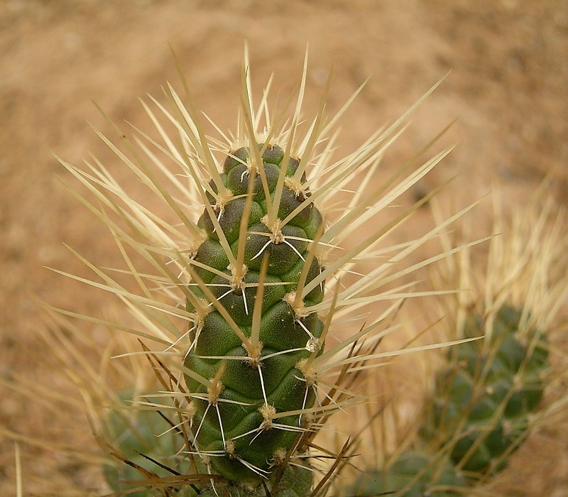 Tephrocactus weberi